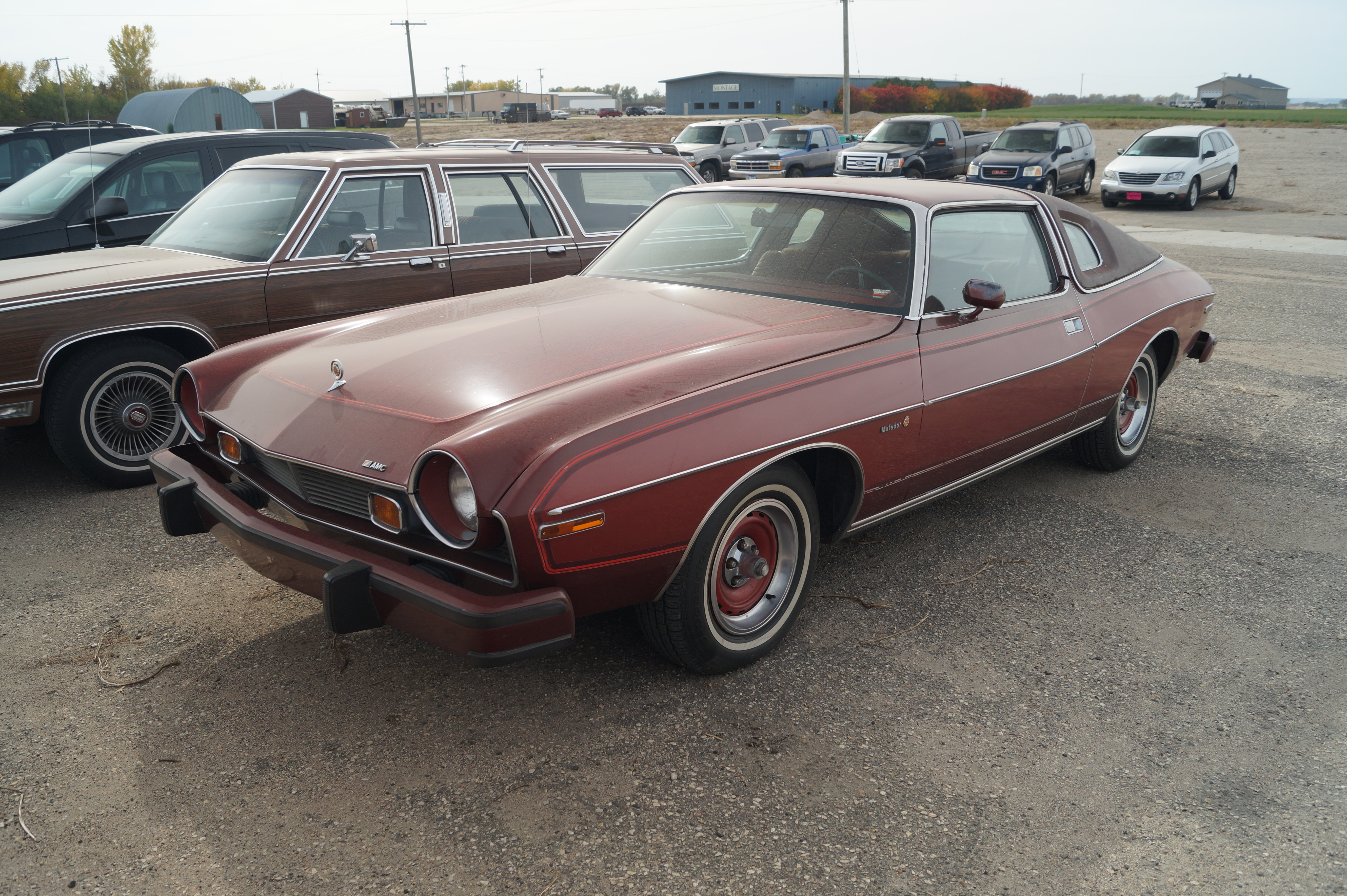 Click here for more car pictures at my Flickr site. Stock#U12334 Pkg.BARCELONA COUPEColorRED Mileage76,864Int--- EngV8 360 CU INTrans.AUTOMATIC